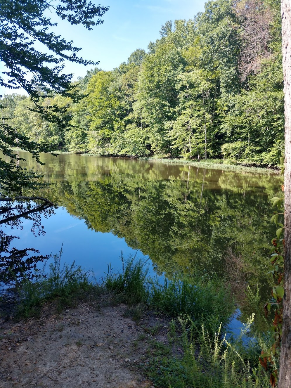 Wolf Run Shoals on the Occoquan River near Clifton, Virginia as it appears in July 2019.